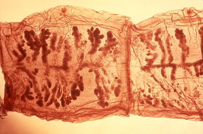 ID#: 5261 Description: This micrograph reveals the organ morphology within Taenia solium tapeworm proglottids. The number of primary lateral uterine branches, i.e. the dark India ink stained irregularities, allows differentiation between the two species: T. saginata has 15-20 branches on each side, while Taenia solium has 7-13. Content Providers(s): CDC Creation Date: 1986 Copyright Restrictions: None - This image is in the public domain and thus free of any copyright restrictions. As a matter of courtesy we request that the content provider be credited and notified in any public or private usage of this image.